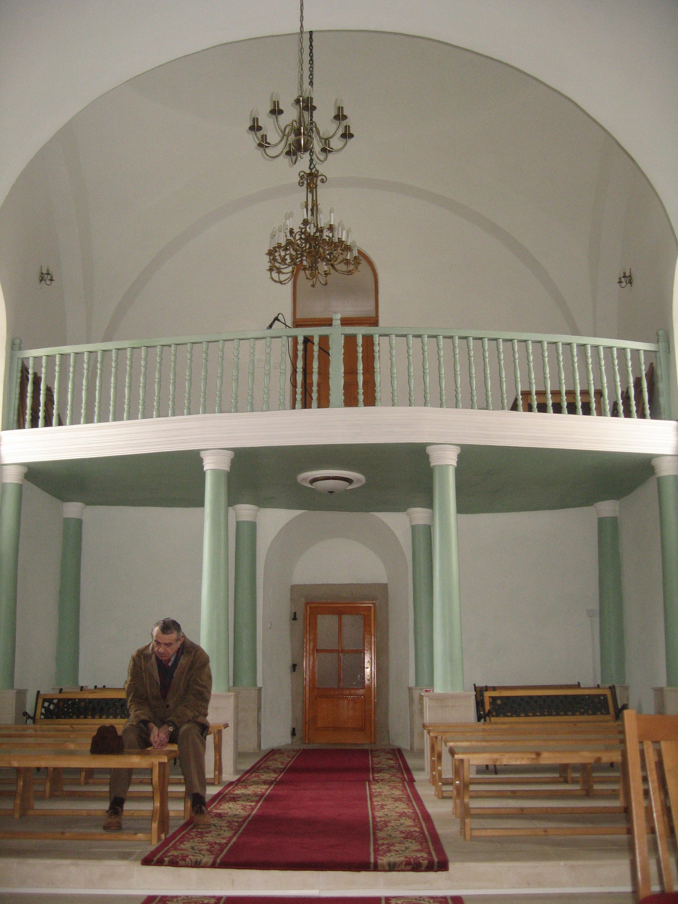 Armenian church in Iași